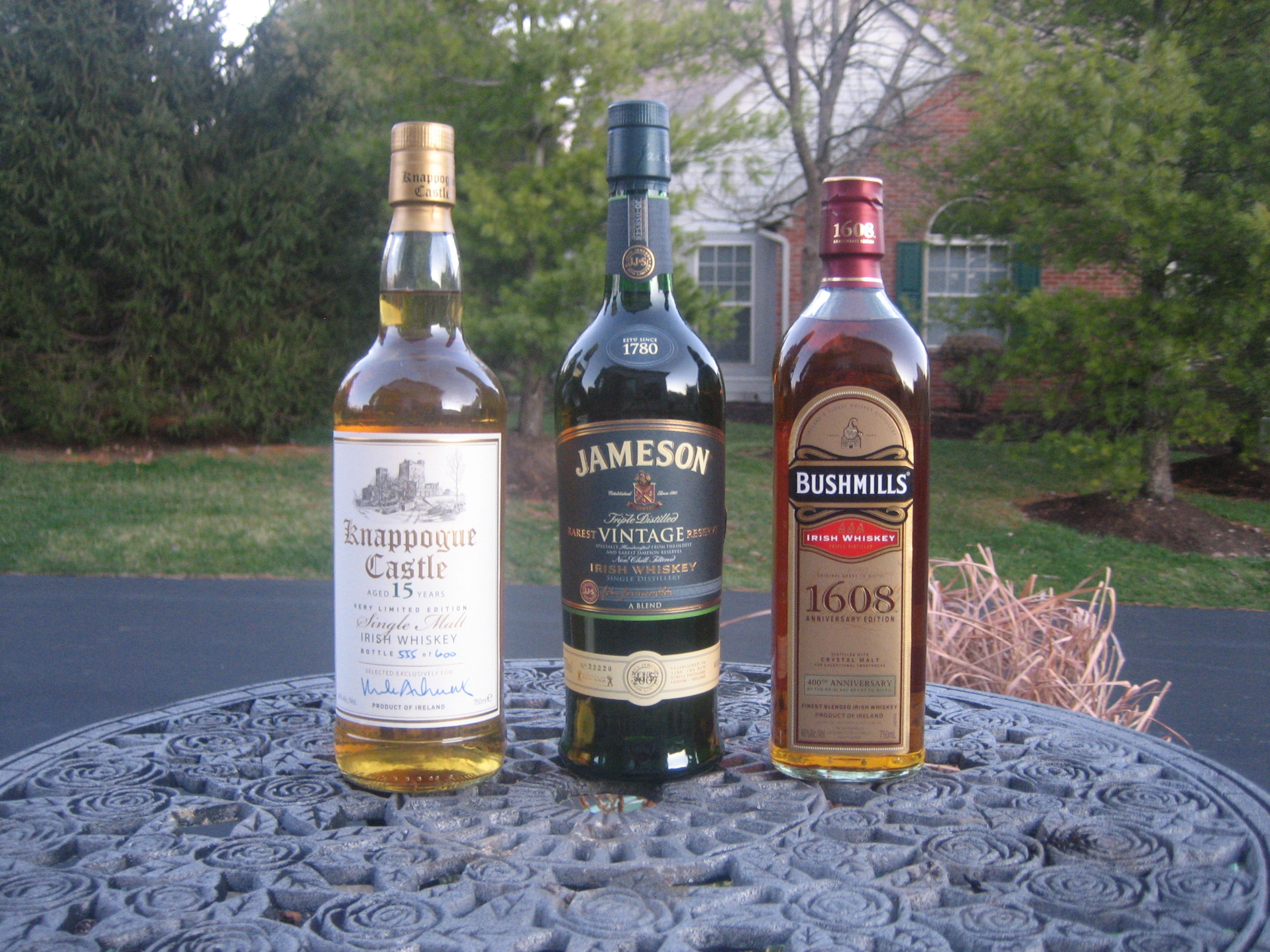 Three good Irish whiskeys